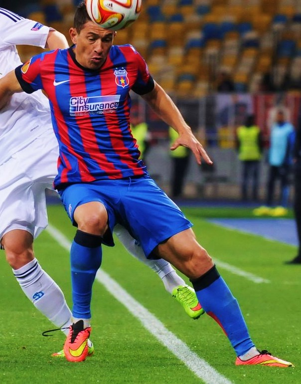 Andrei Prepeliță